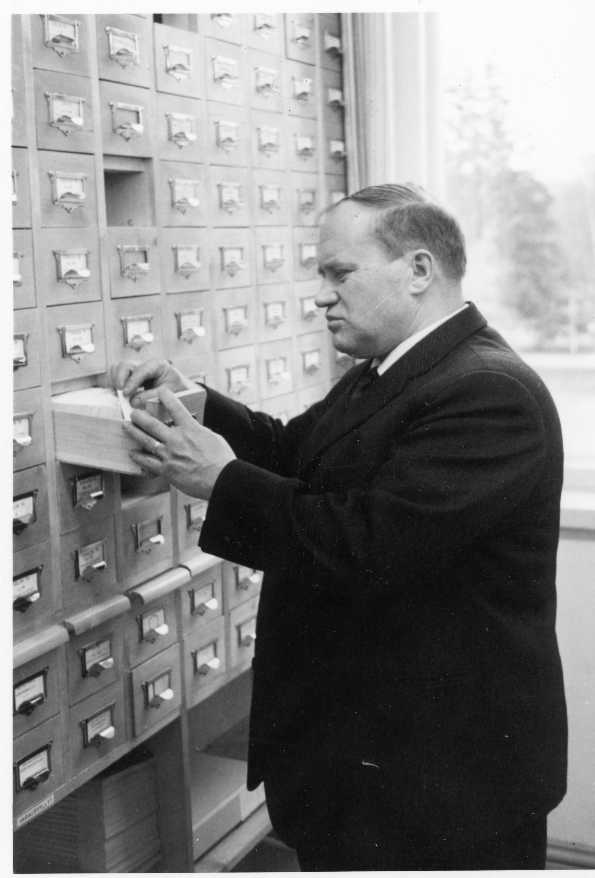 The 30th Archive Meeting in Oulu on 2-3 November, 1966. Provincial archivist Keijo Astala.